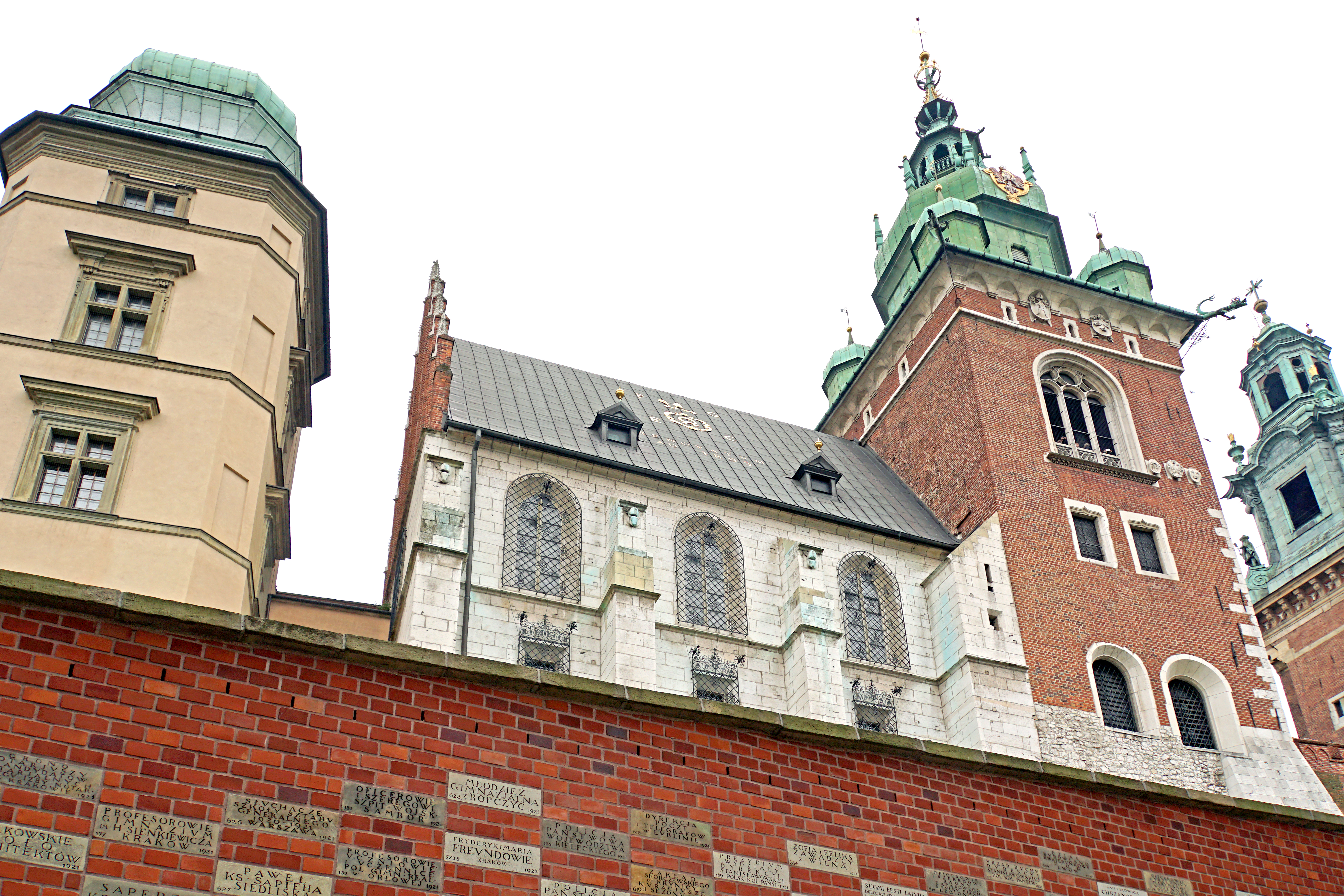 PLEASE, NO invitations or self promotions, THEY WILL BE DELETED. My photos are FREE to use, just give me credit and it would be nice if you let me know, thanks. Wawel Cathedral, home to royal coronations and resting place of many national heroes; considered to be Poland's national sanctuary. View of the cathedral taken while walking towards the entrance of the castle. Wawel Castle in Krakow is a castle residency built at the request of King Casimir III the Great, who reigned Poland from 1333 to 1370, and consists of a number of structures situated around the central courtyard.